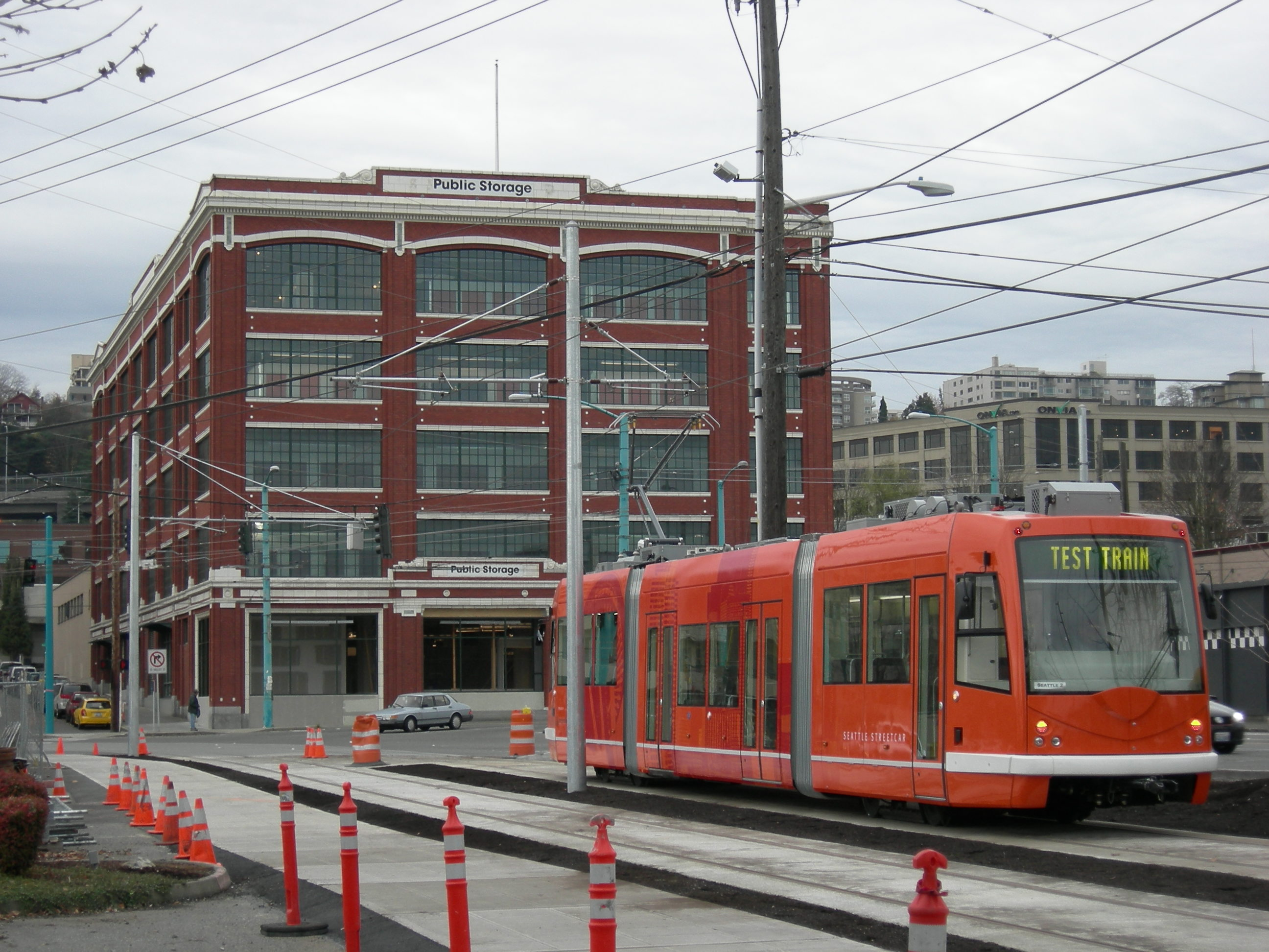 "The SLUT" ("South Lake Union Trolley", though it is officially "South Lake Union Streetcar" to avoid the unfortunate acronym), Seattle, Washington. The building in the background was once a Model T Ford assembly plant; for a long time it housed Craftsman Press; it is now a Public Storage building.